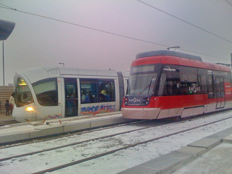 A Rhônexpress train at the Vaulx-en-Velin - La Soie station, with a Citadis tram on Lyon tramway line T3 in the background